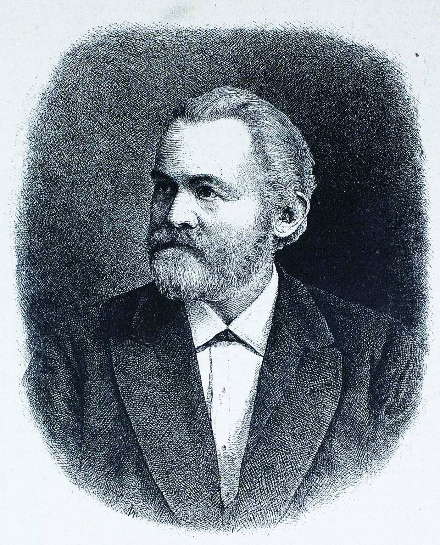 no caption